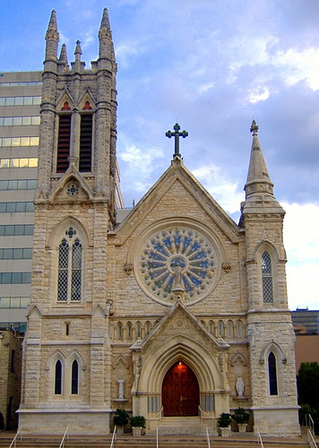 Saint Mary's Cathedral in downtown Austin, Texas. This is the seat of the Bishop of the Diocese of Austin.